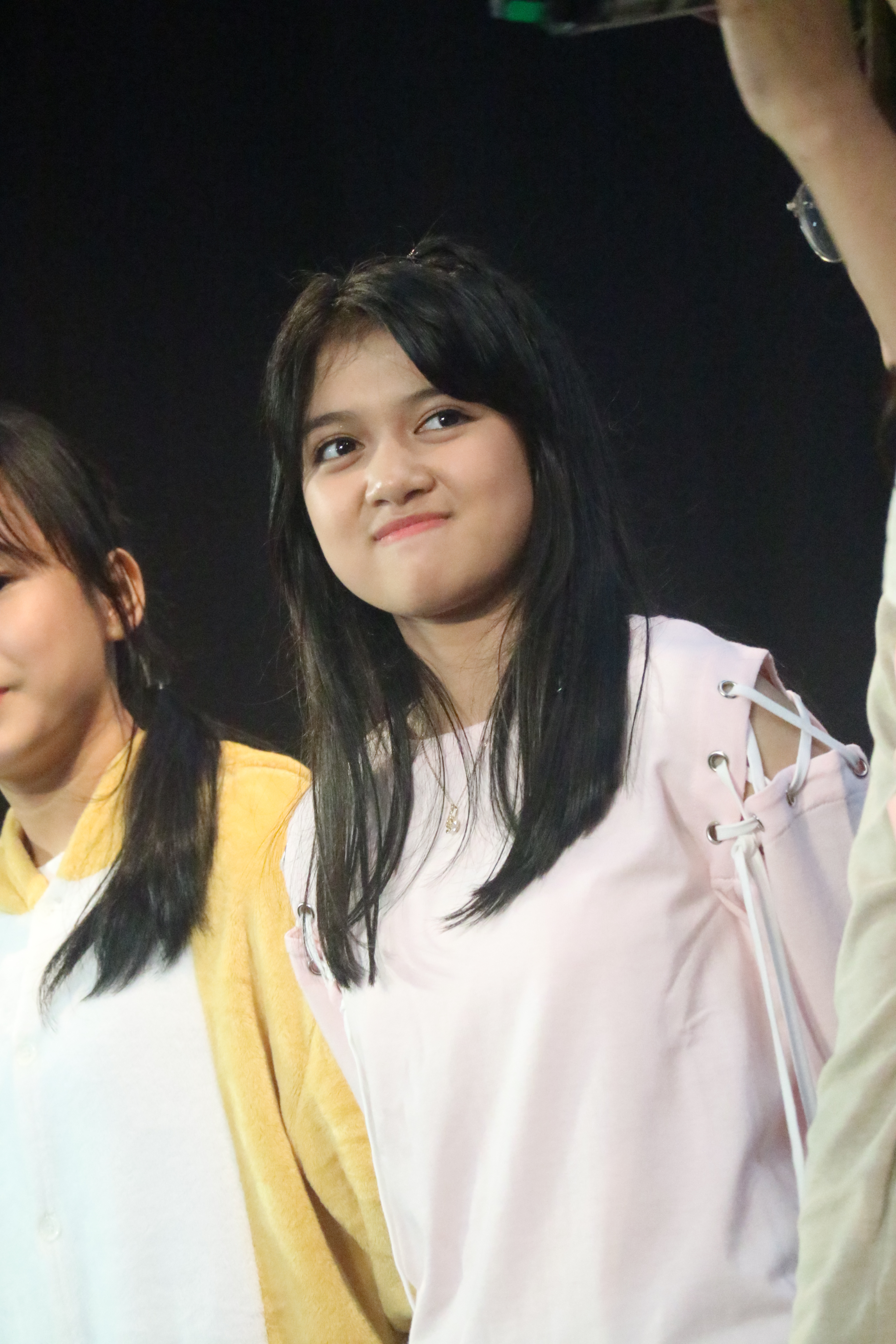 Amanina Afiqah Ibrahim at Joy Kick Tears Jakarta HSF